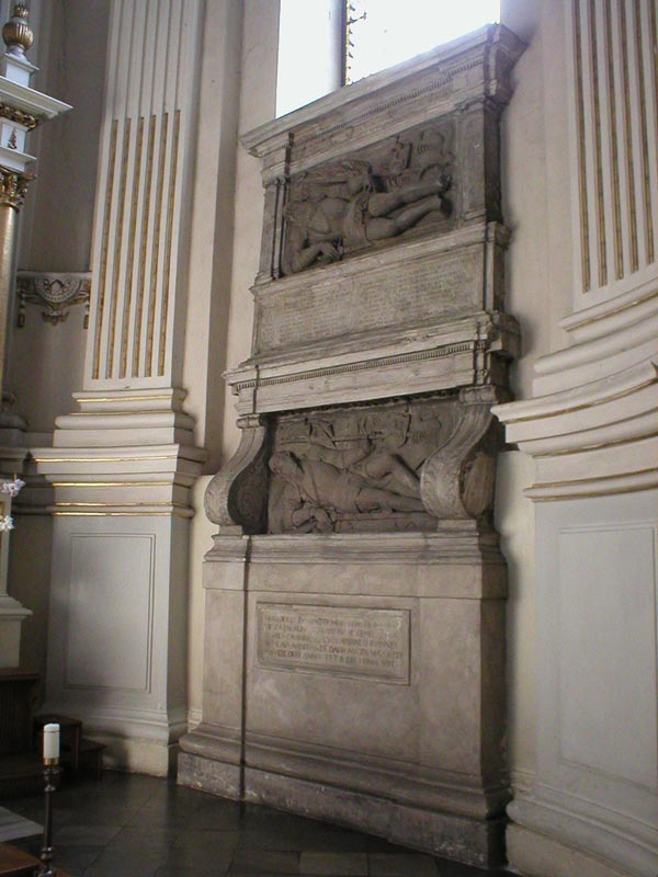 Firlej Chapel in the Dominican Church in Lublin - the Firlej Family Tombstone.